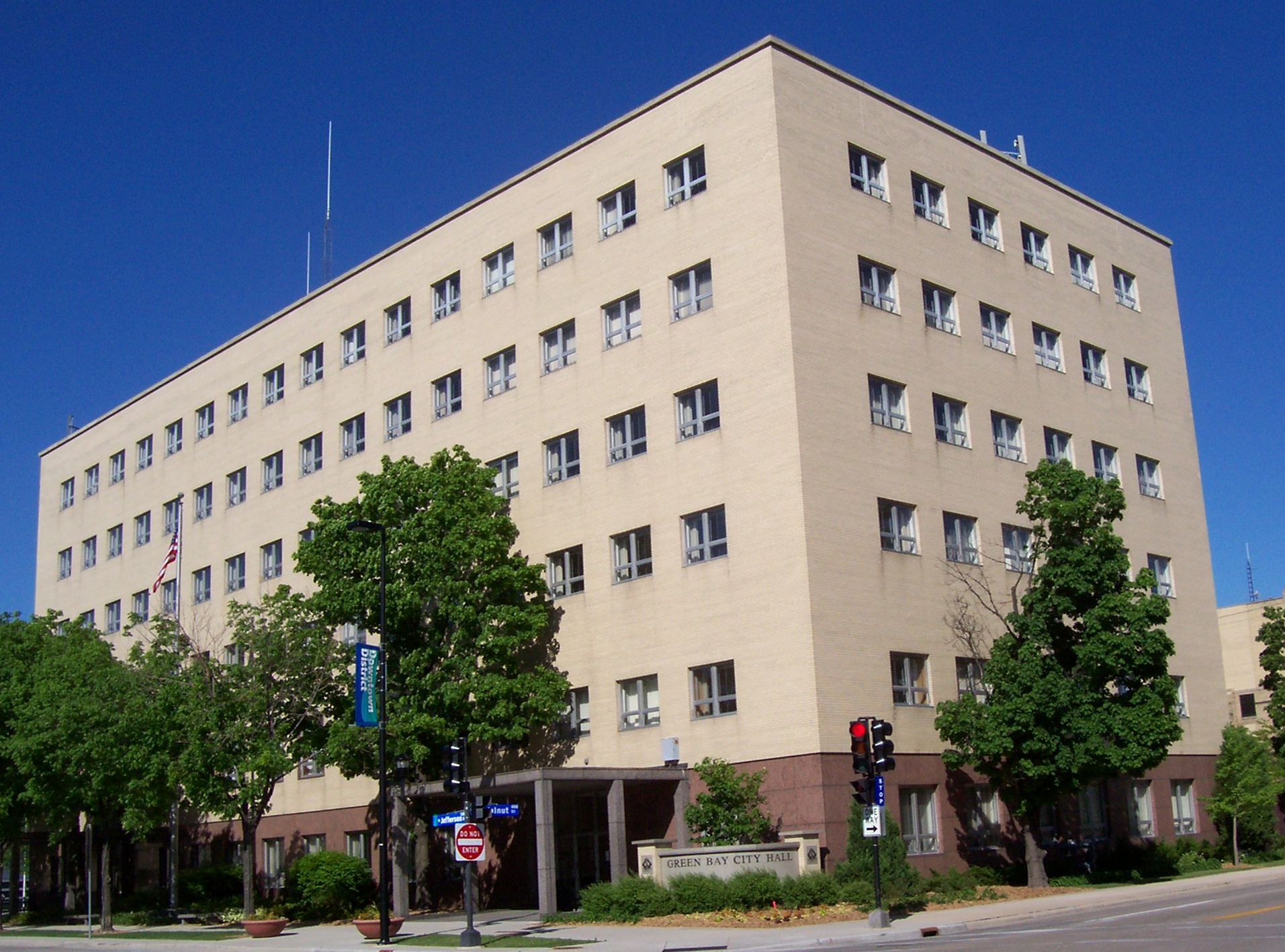 The city hall for Green Bay, Wisconsin, USA.